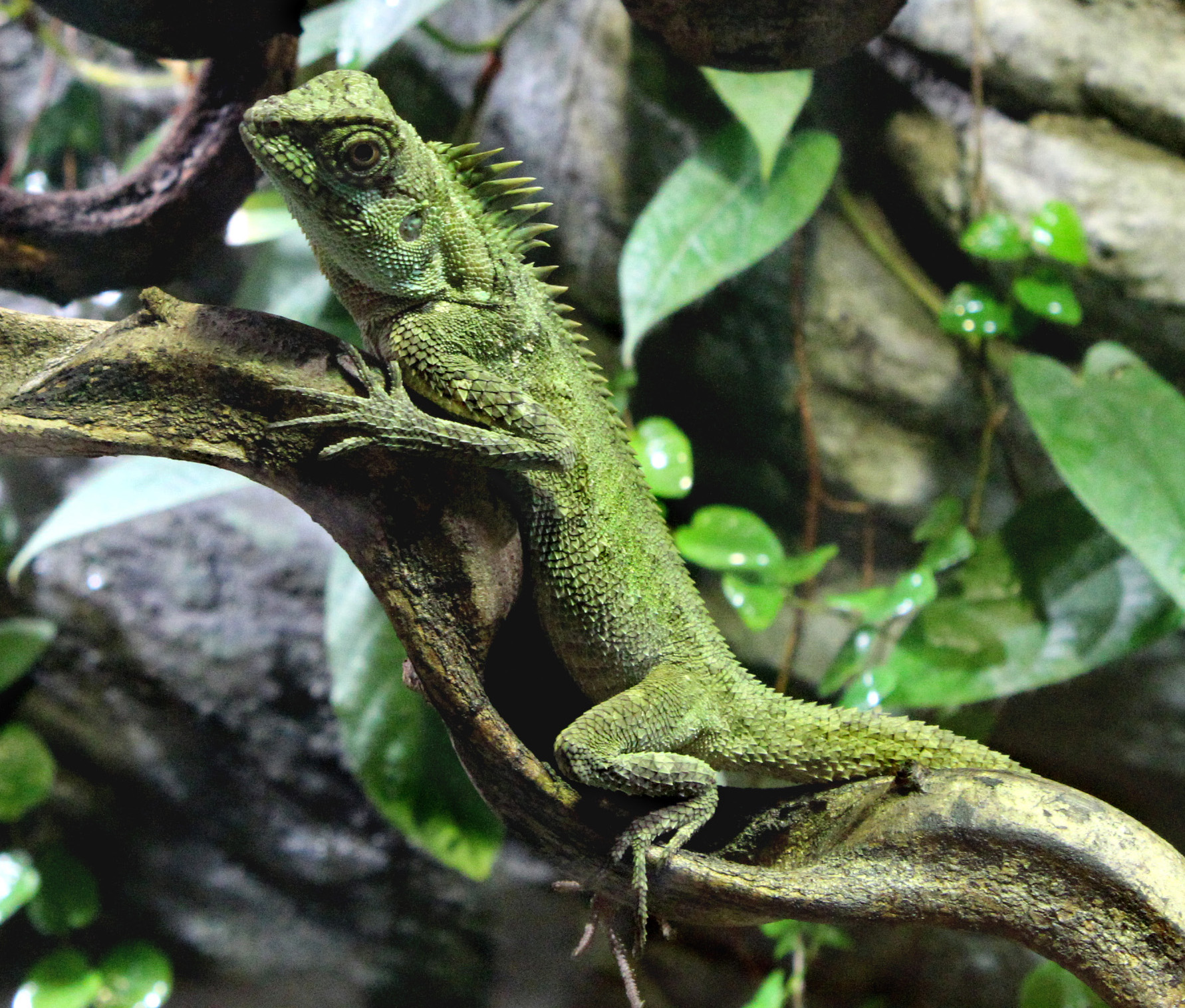 Mountain horned dragon Acanthosaura capra in Prague Zoo, Czech Republic